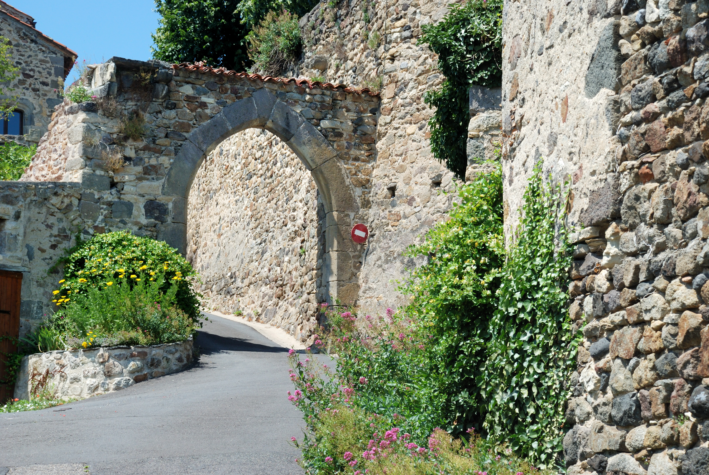 Montaigut-le-Blanc : gate of the castle wall (Puy-de-Dôme, France). Translations in other languages are welcome.